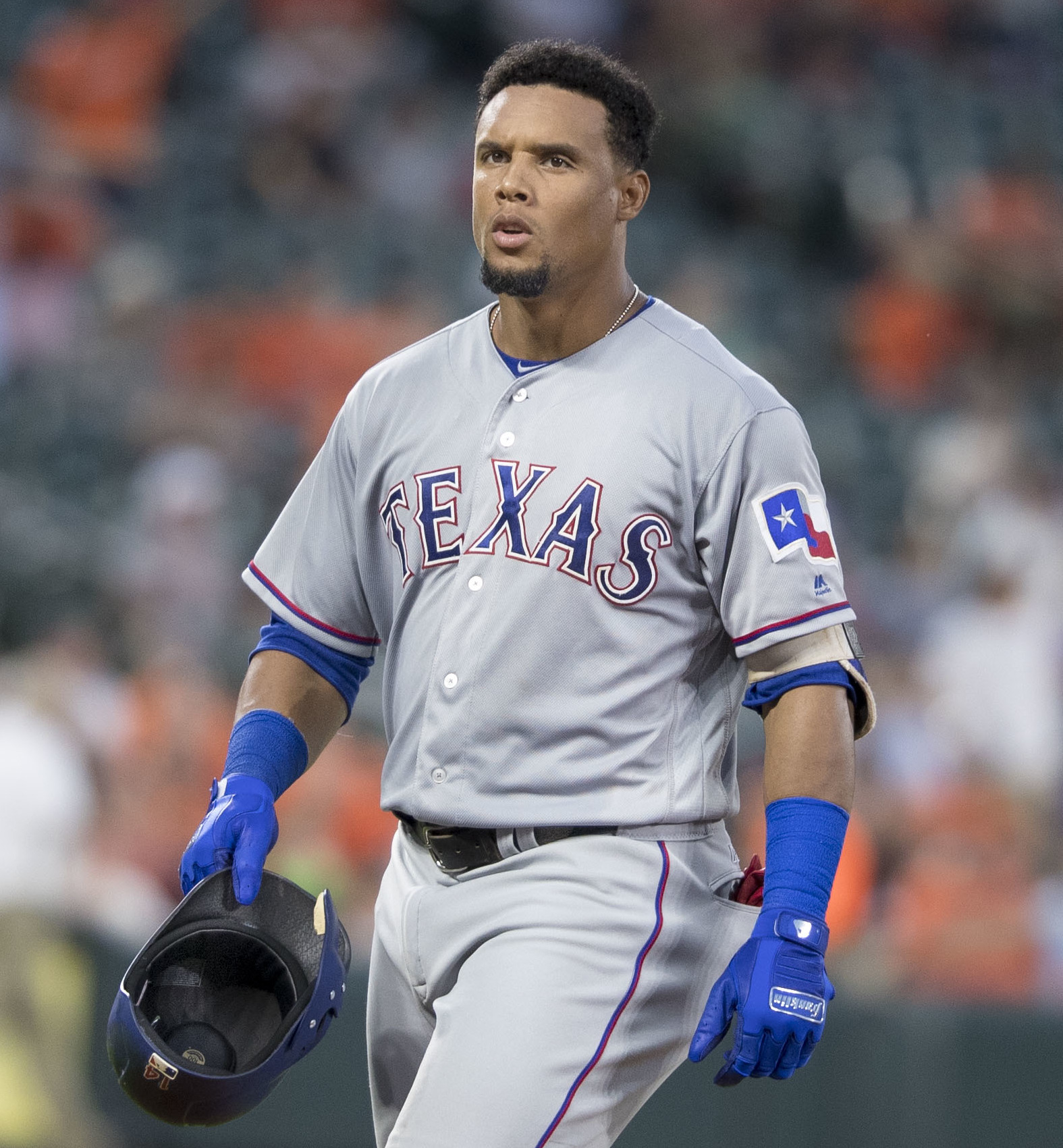 Rangers at Orioles 7/18/17